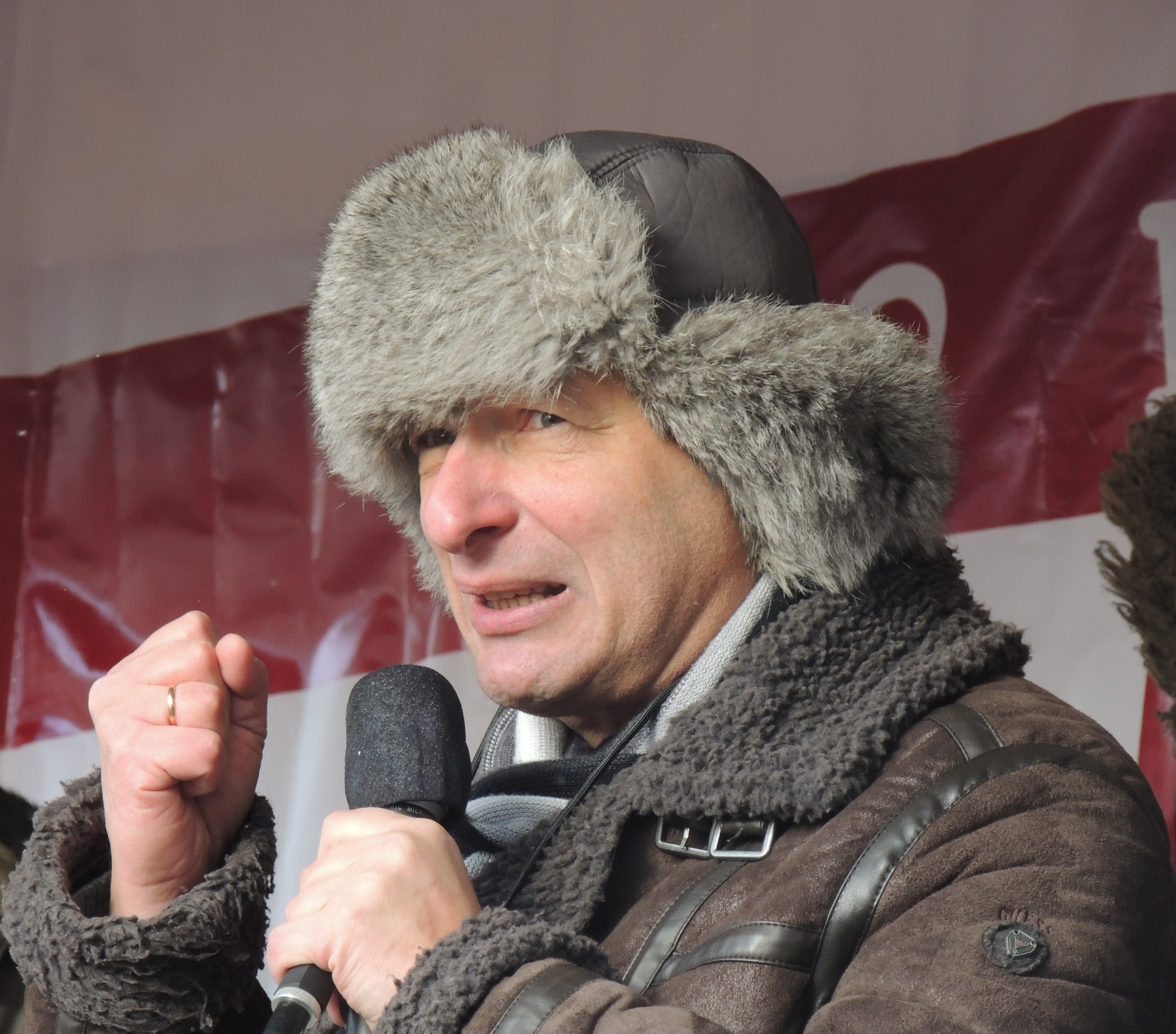 Boris Kagarlitzky, Russian politician, speaks at Moscow opposition rally "for the social rights of Muscovites" 2 March 2013